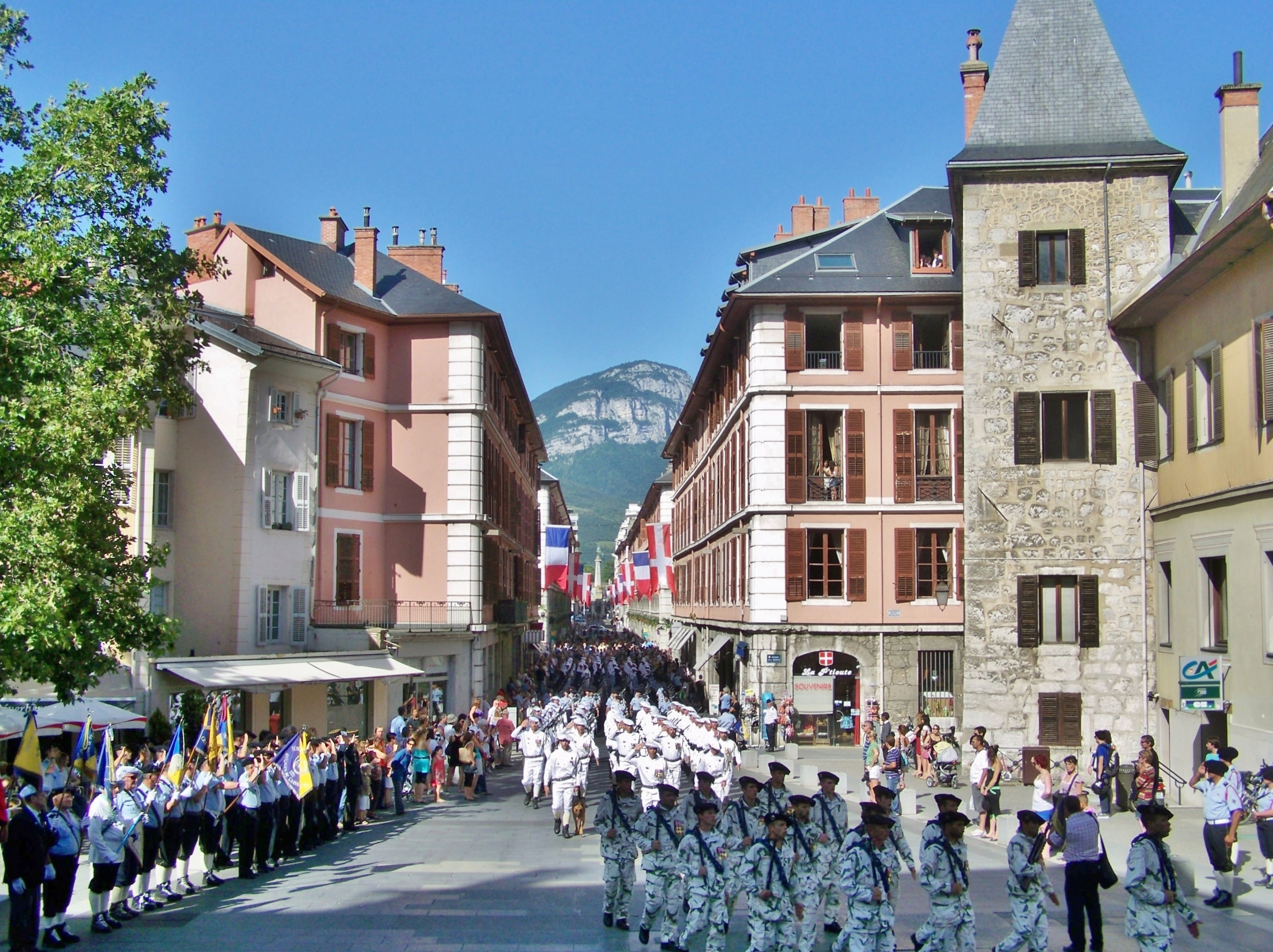 13ème Bataillon de chasseurs alpins (elite mountain infantry) military parade taking place in Chambéry, Savoie, France.